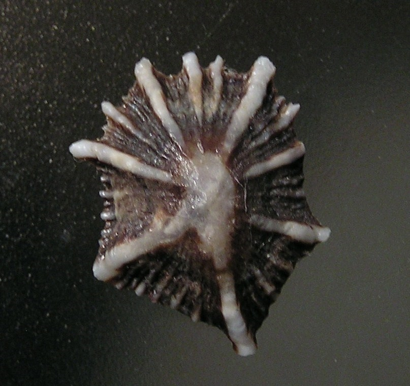 Siphonaria sirius Pilsbry, 1894, a false limpet from the family Siphonariidae; Japan